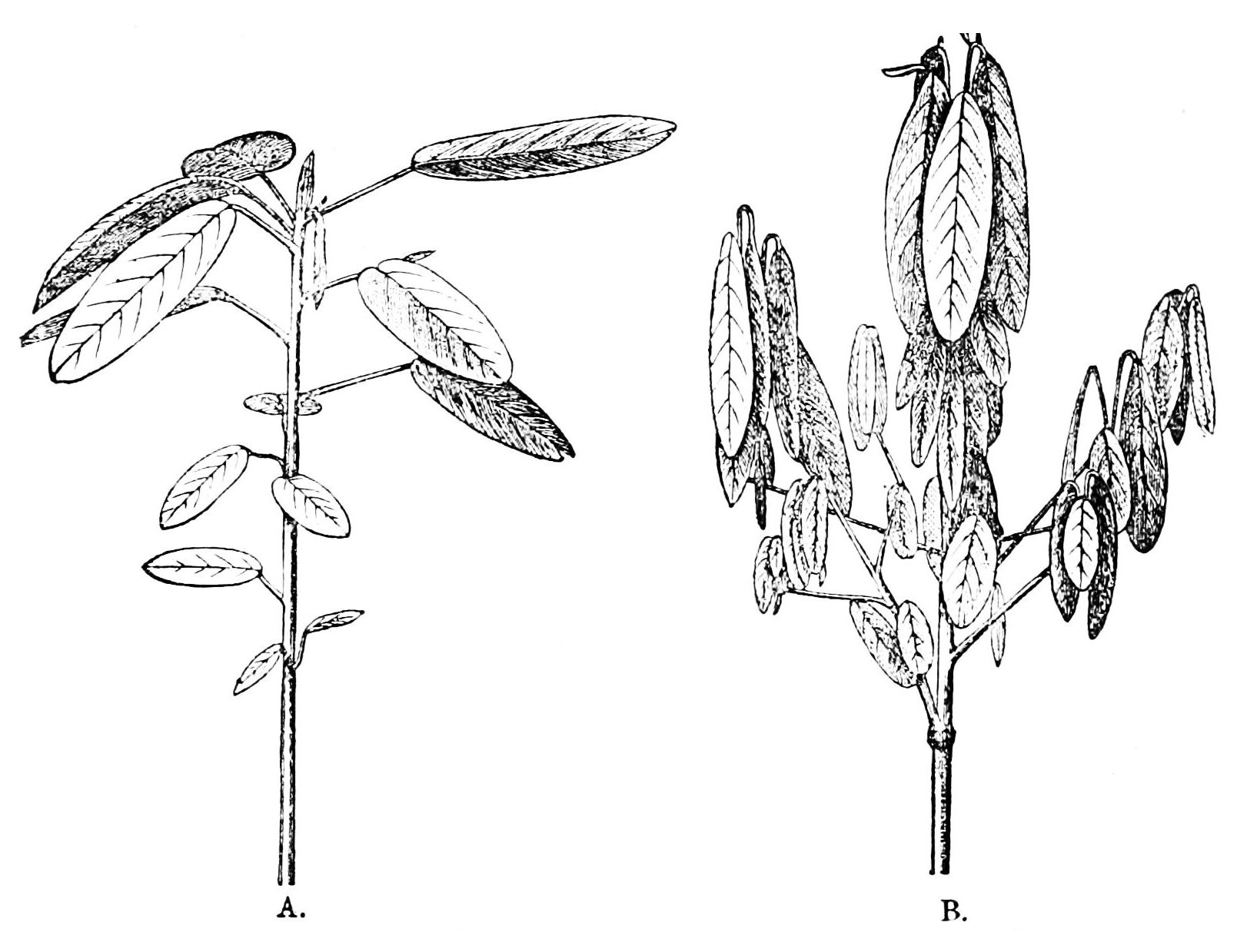 Desmodium gyrans in diurnal and nocturnal state